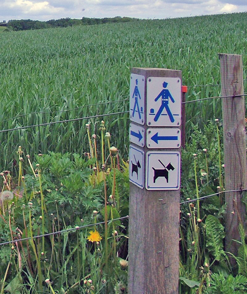 Signpost on the danish hiking trail, Gendarmstien. Photo taken by Jørgen Larsen, june 2005.